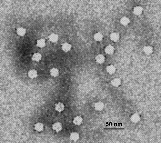 EM of canine parvovirus, isolate via isopycnic centrifuge, if you intent to use, leave authors name on unmodified EM scan.